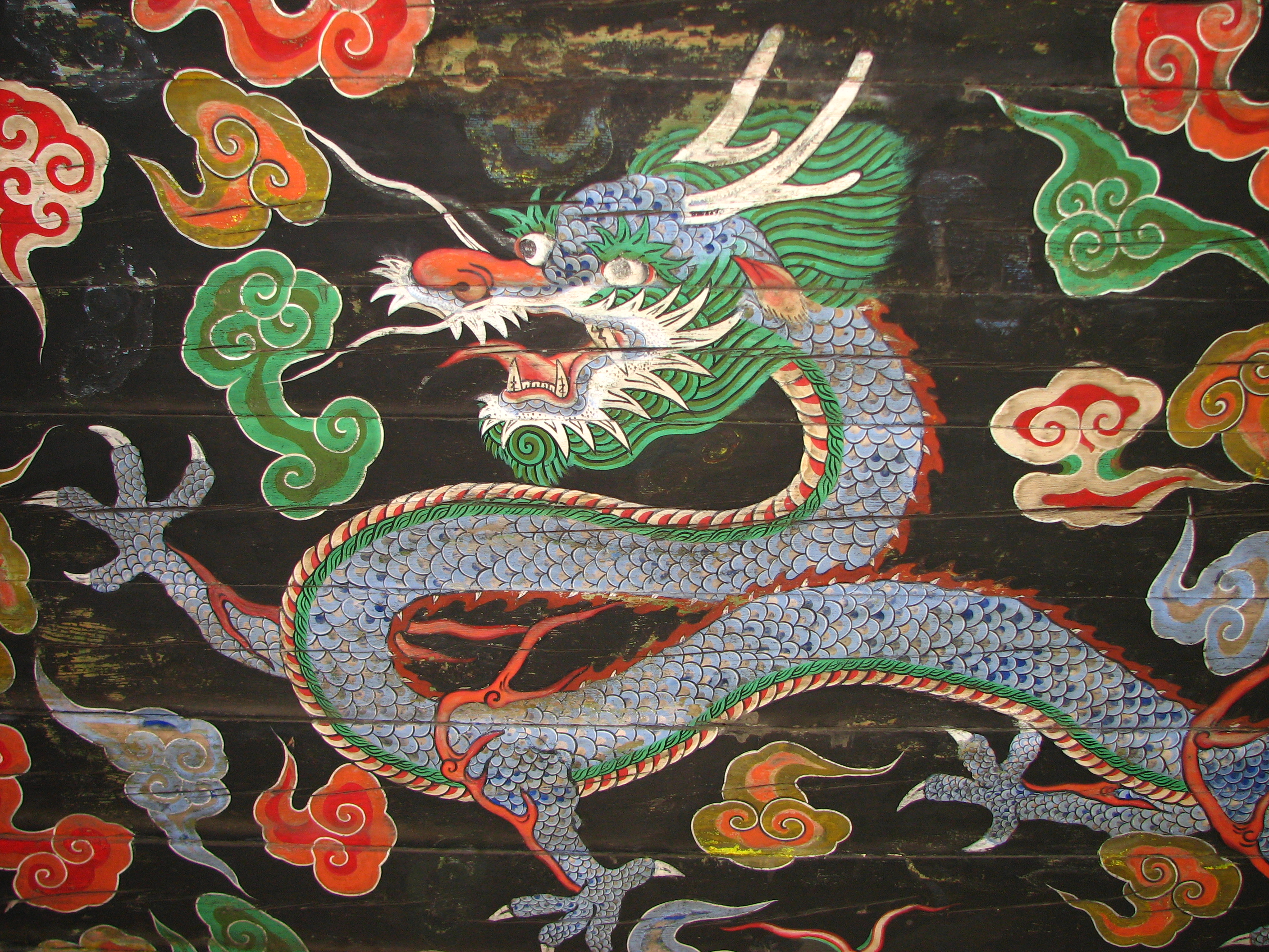 Dragon painting on the Korean ceiling of Sungnyemun or Namdaemun in South Korea